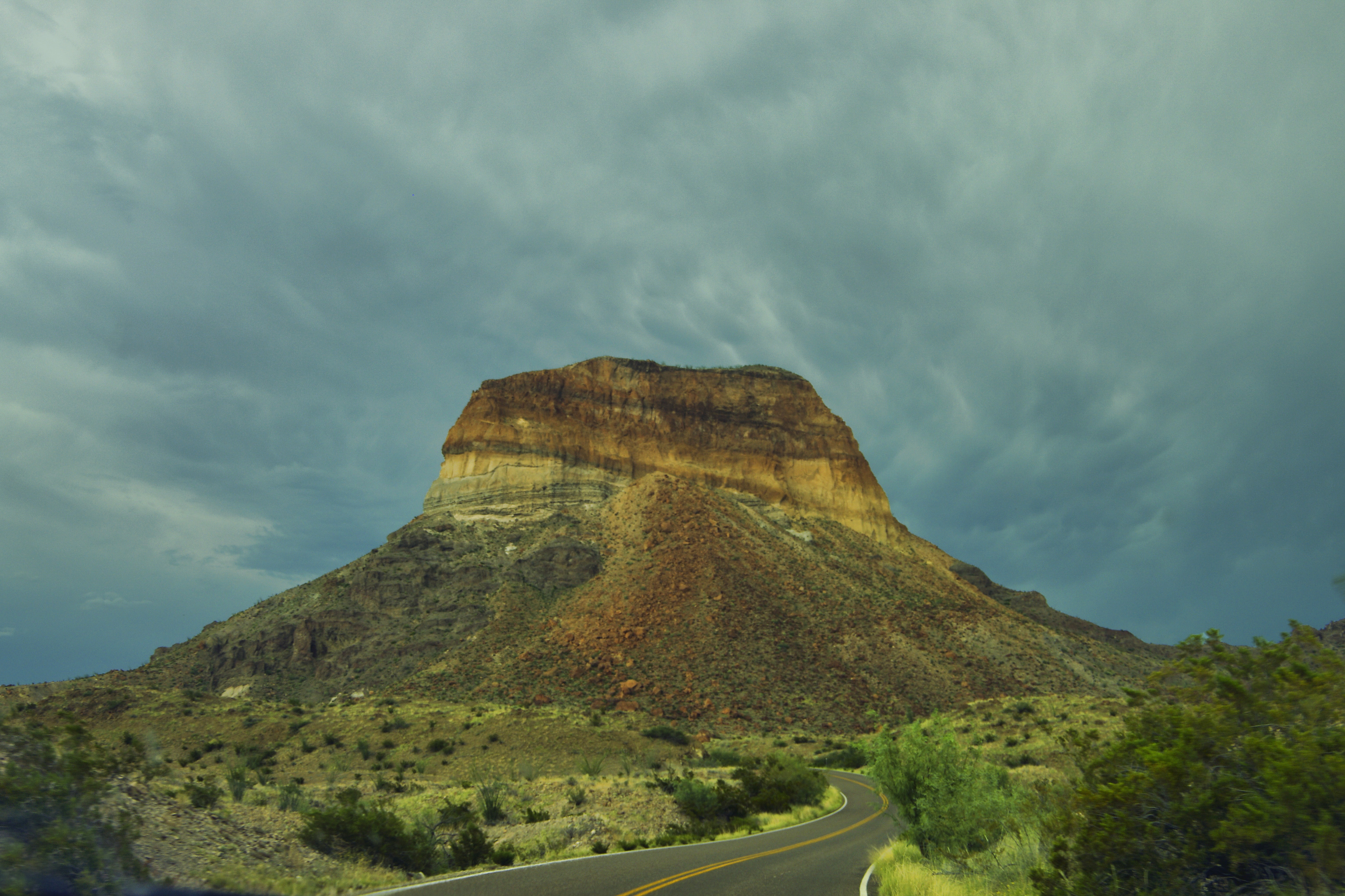 Big Bend National Park, Texas